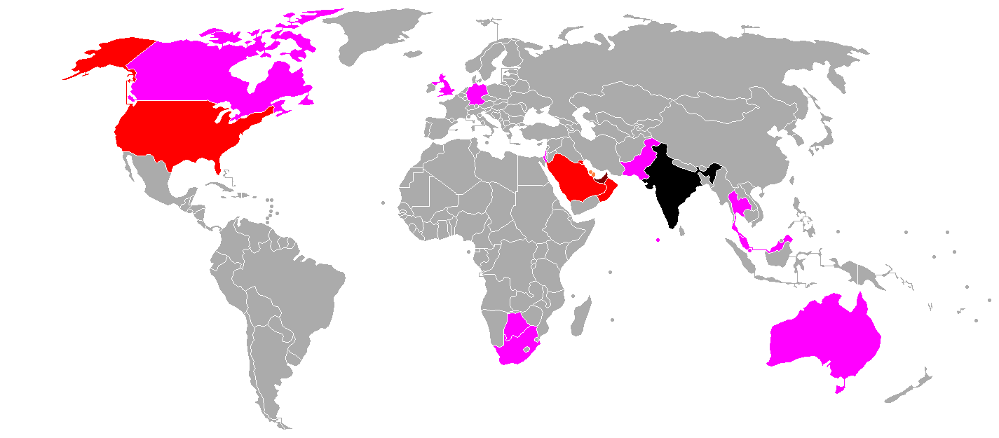 {BLACK-1,000,000-50,000,000} {BROWN-500,000-1,000,000} {RED-100,000-500,000} {ORANGE-50,000-100,000} {PINK-1-50,000}